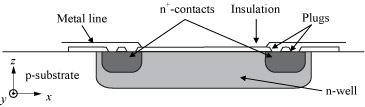 Schematic drawing of the basic elements of a silicon n-well piezoresistor.